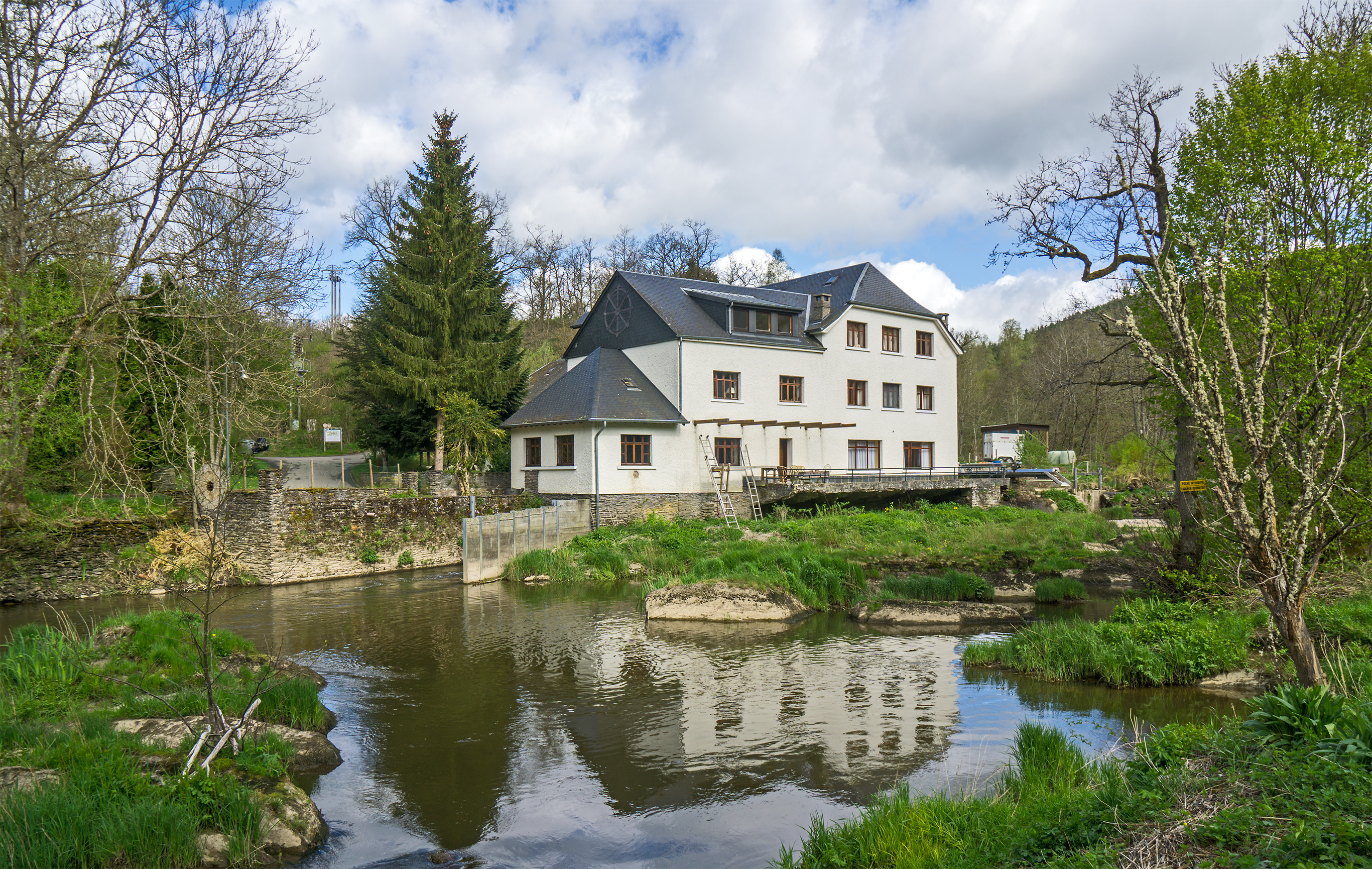 Bigonville-MoulinLëtzebuergesch: D'Bungerefer Millen